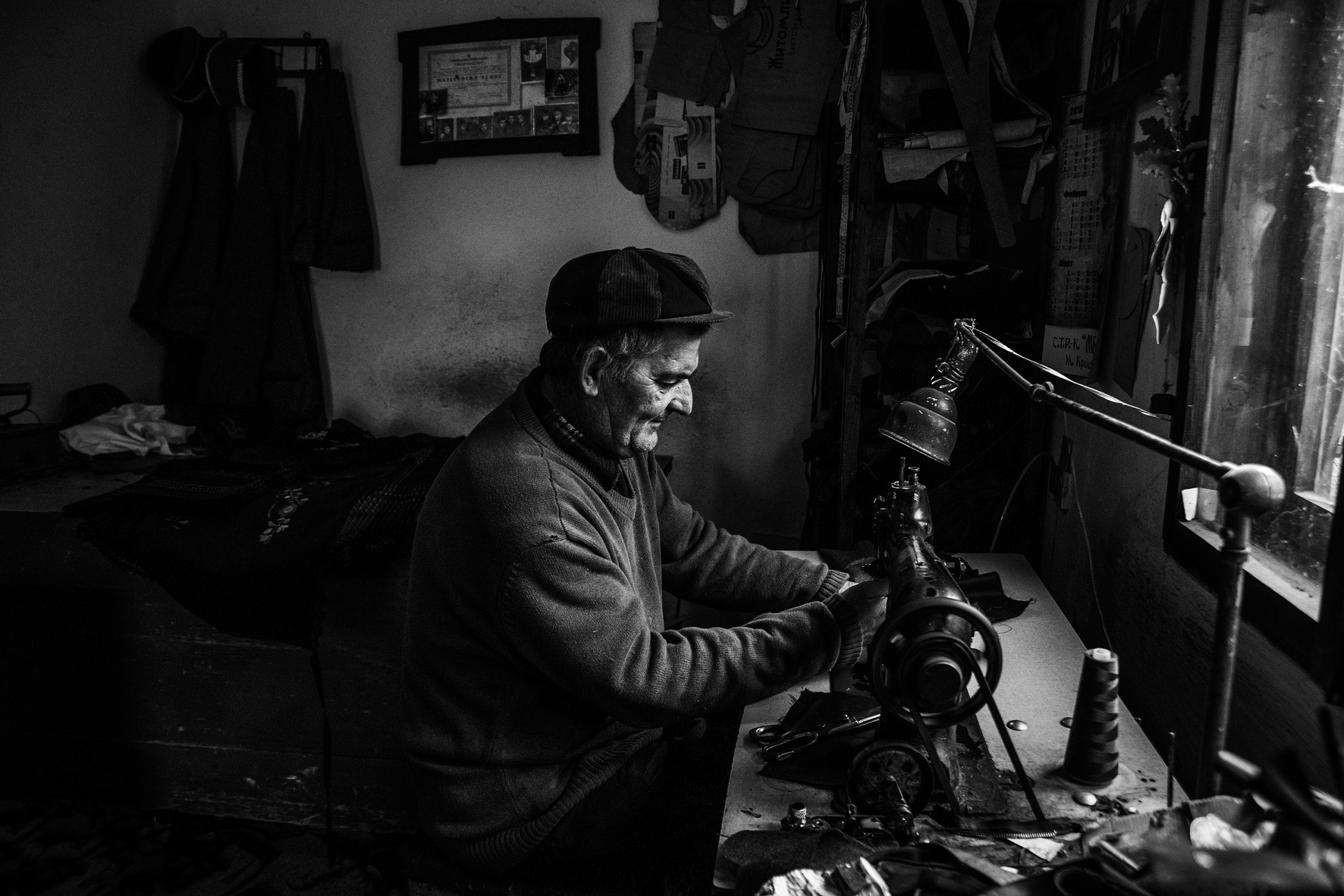 The Tailor of Folk Suits